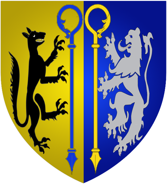 Coat of arms of the municipality of Beckerich, Luxembourg